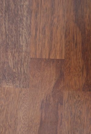 Merbau parquetry from Hellweg homecenter Berlin traded with Forest Stewardship Council (FSC) certificate which ist not available for Merbau because it is mainly illegal logged in West Papua.